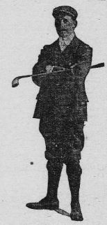 This is a snip of English golfer Bernard Nicholls, taken from a September 26, 1901 Saint Paul Globe newspaper article.